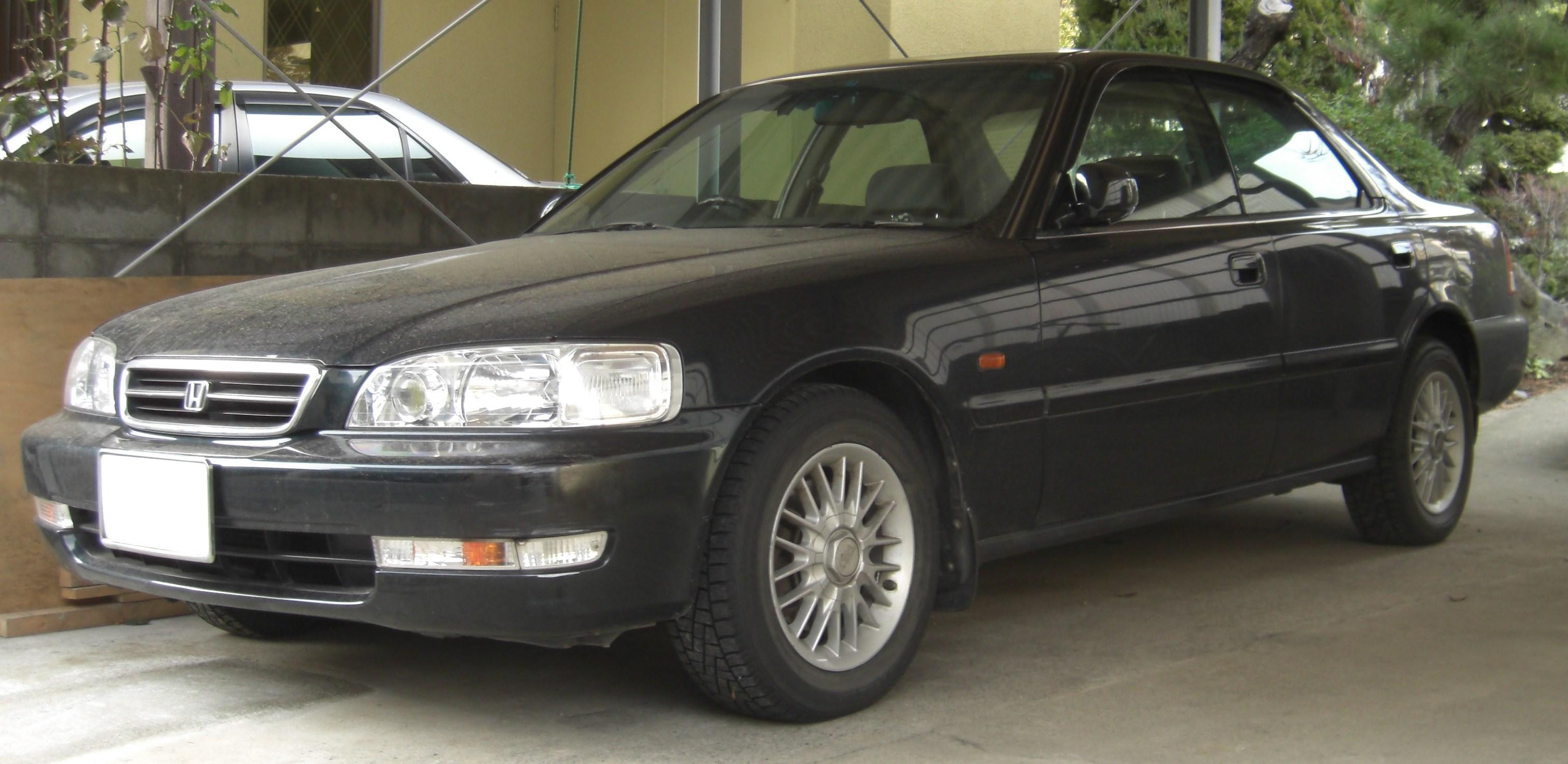 Honda Inspire